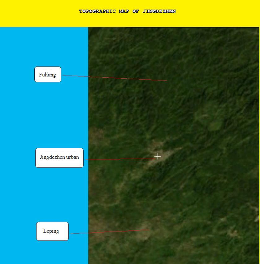 topographic map